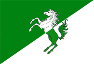 Flag of Rajon Fălești